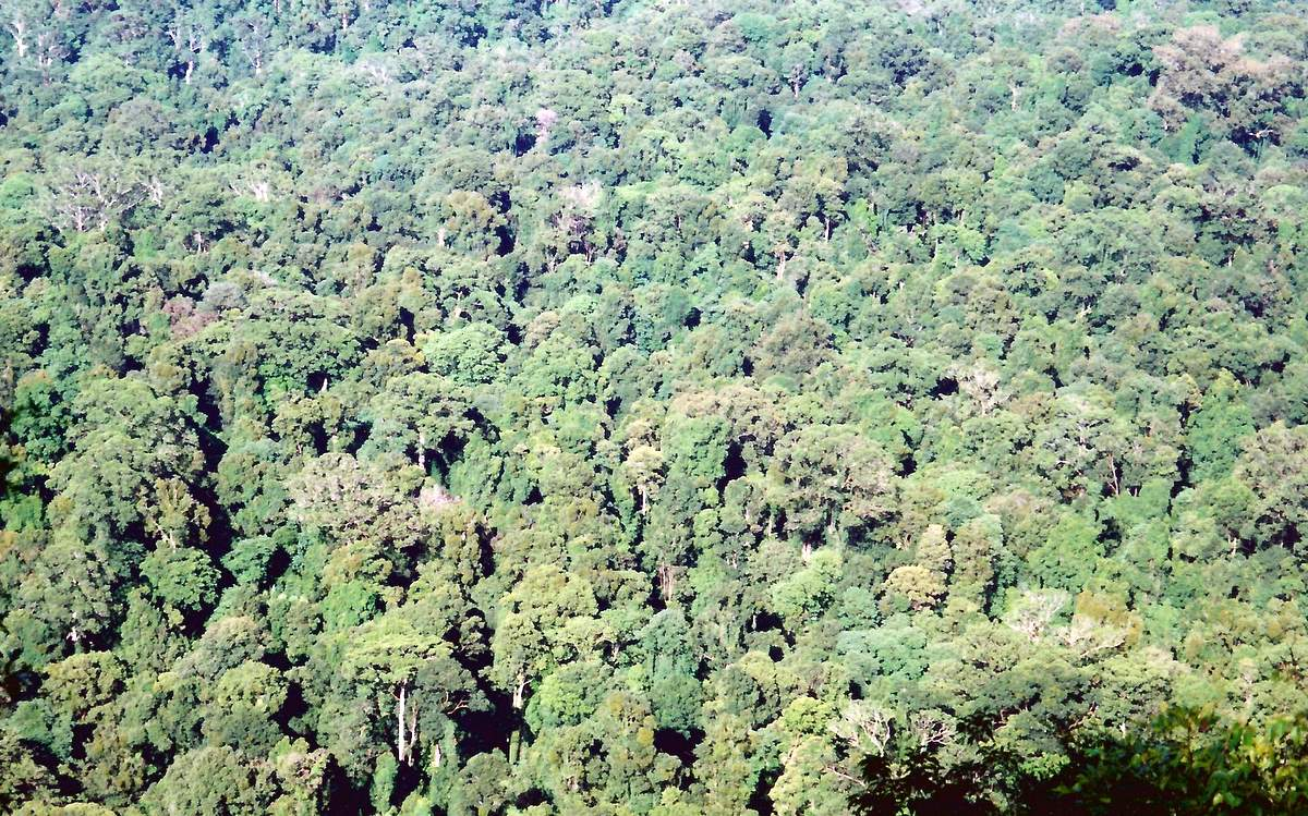 Murray Scrub,Toonumbar_National_Park. NSW, Australia